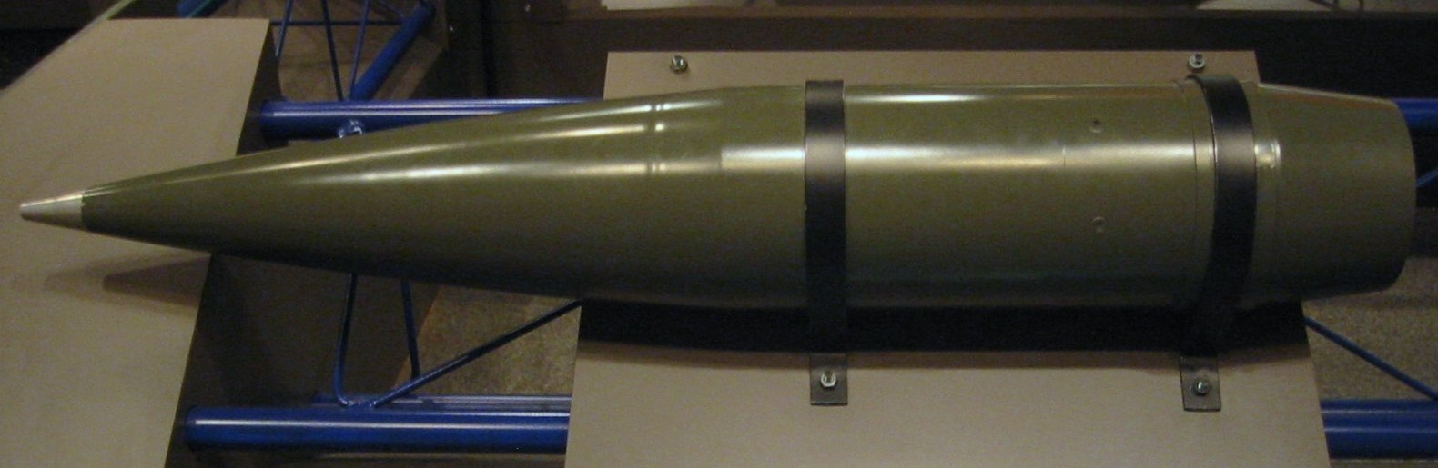 W82 Shell